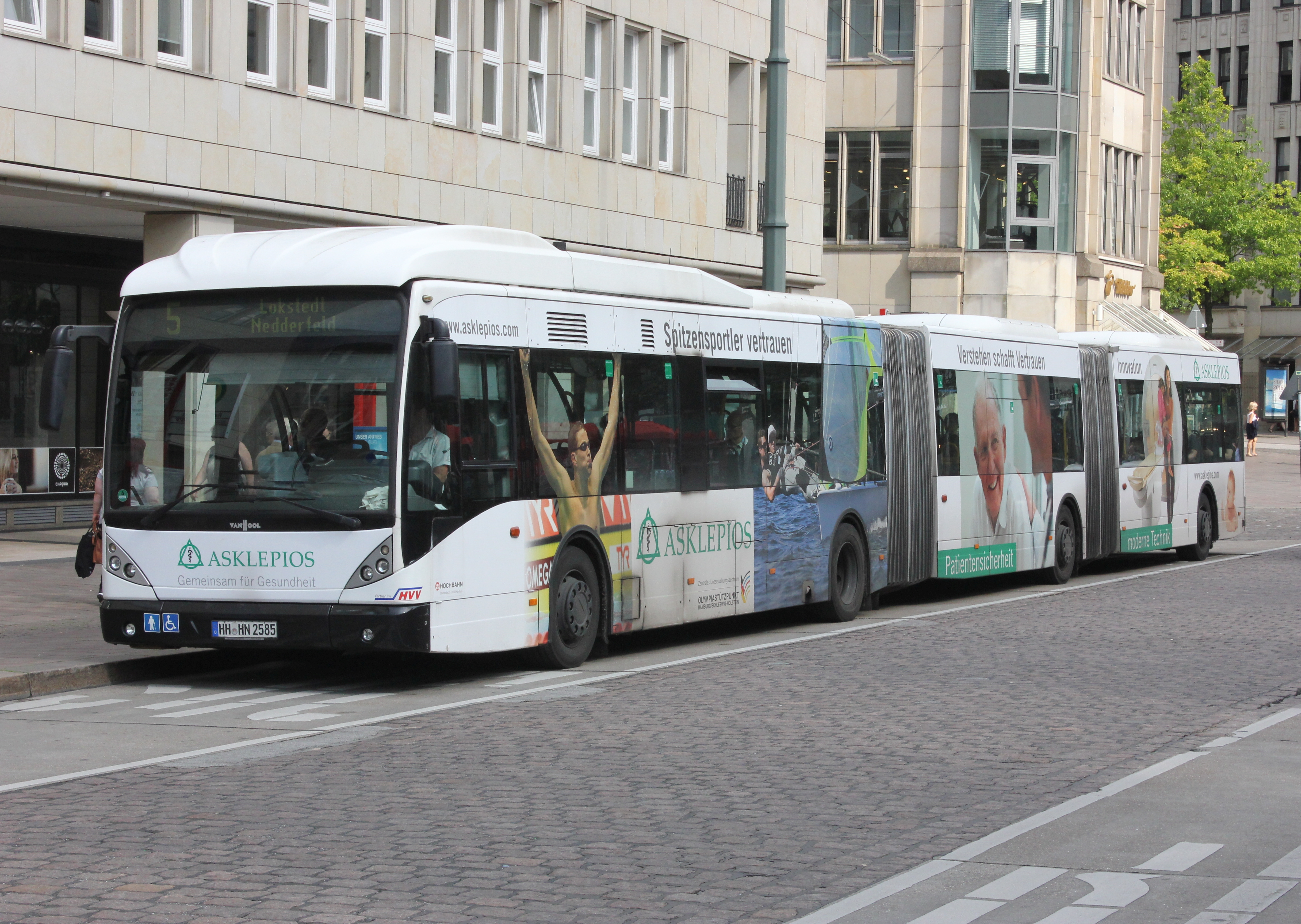 Hamburg - Van Hool NewAGG300 bus #8505 on line No. 5